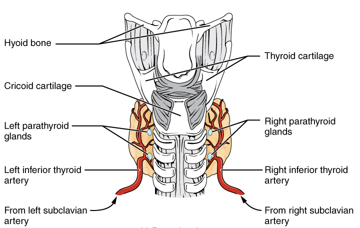 Based off of